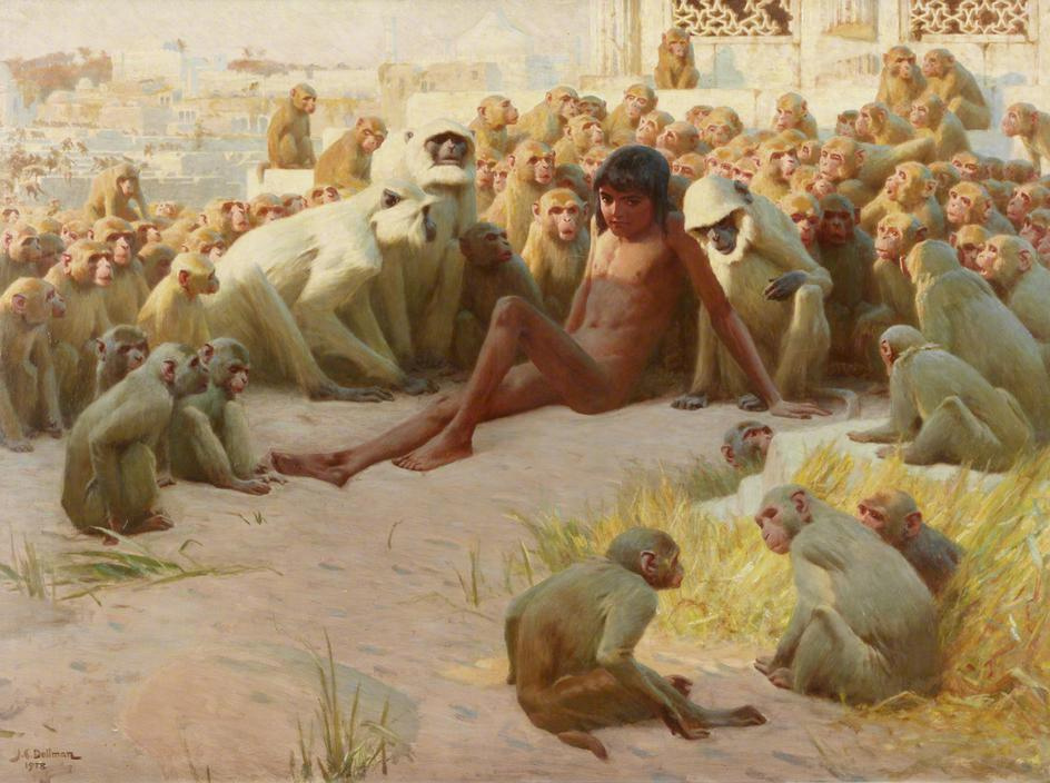 This painting is based on the Rudyard Kipling story "Kaa's Hunting", collected in The Jungle Book. The painting depicts Mowgli in the Cold Lairs, an abandoned human city taken over by the Bandar-Log (Monkey Folk). The monkeys have promised to make Mowgli their leader, claiming that as a human raised by animals he can demonstrate his human wisdom to them. Soon, however, he learns that they only consider him an amusing toy and are already growing bored with him.